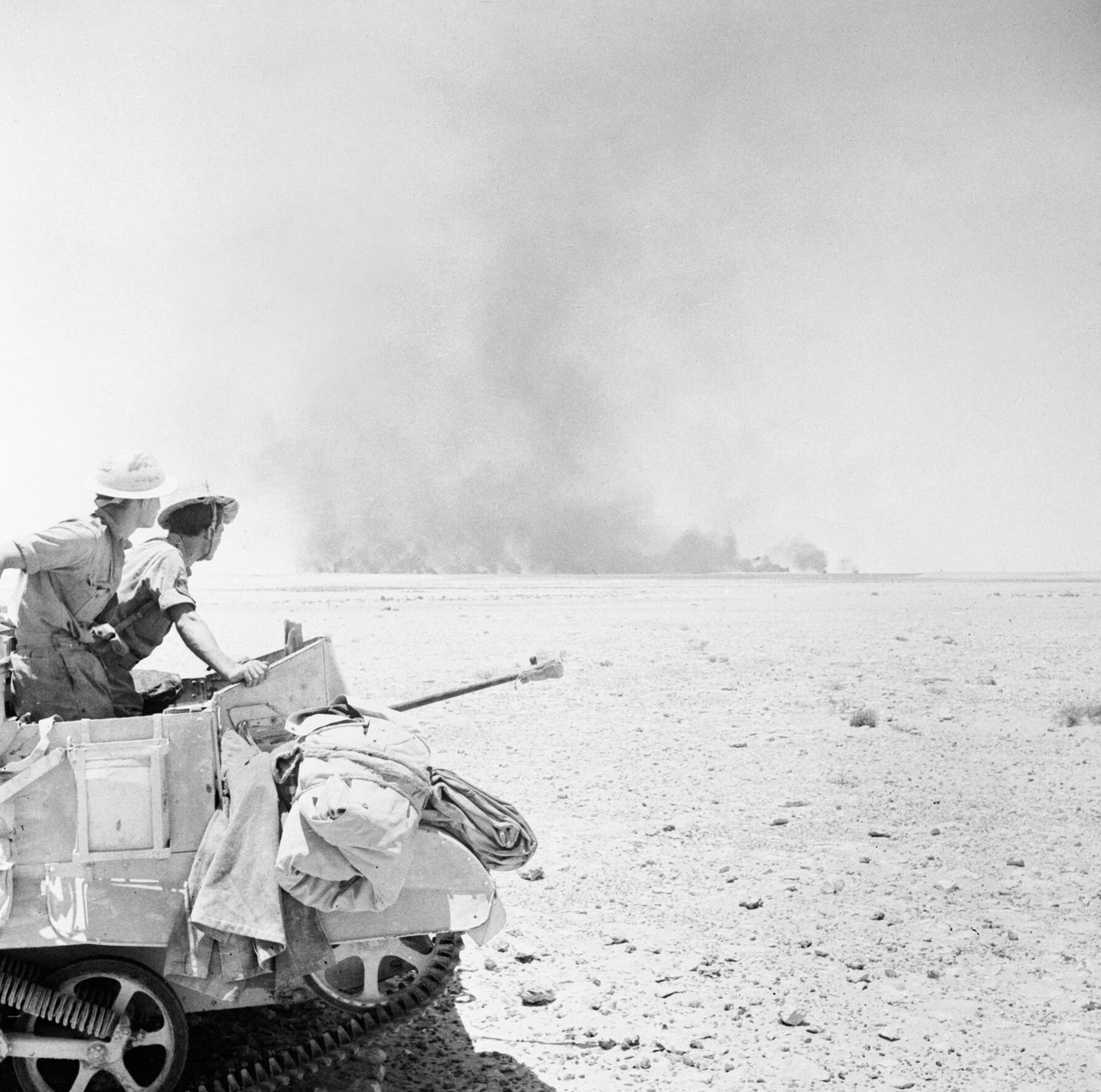 The Campaign in North Africa 1940-1943 El Alamein 1942: Men of 9 Rifle Brigade watch the destruction of a British supply dump at Hamra. The 'scorched earth' policy adopted by the British during their final retreat helped to stretch the German supply lines to their limit at Alamein.